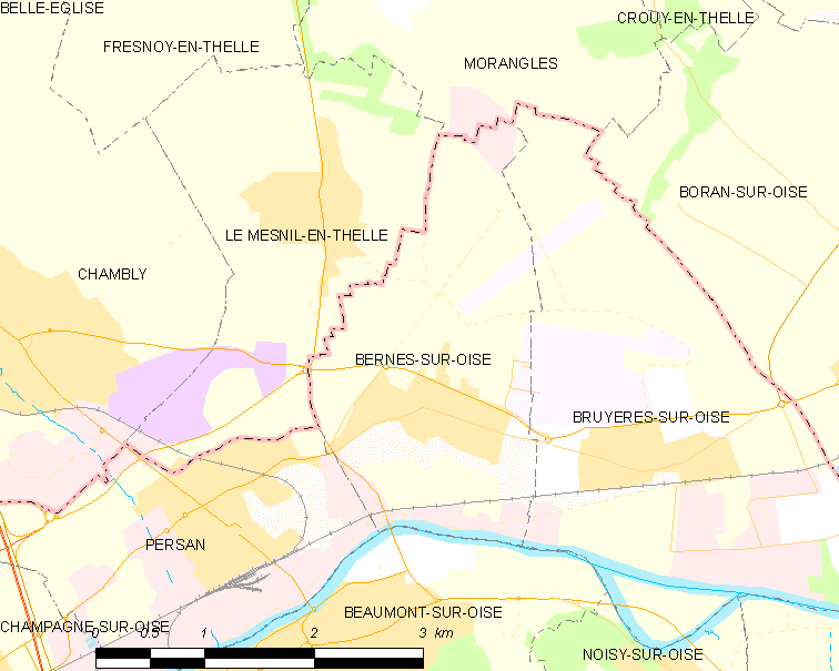 Map of French municipality Bernes-sur-Oise